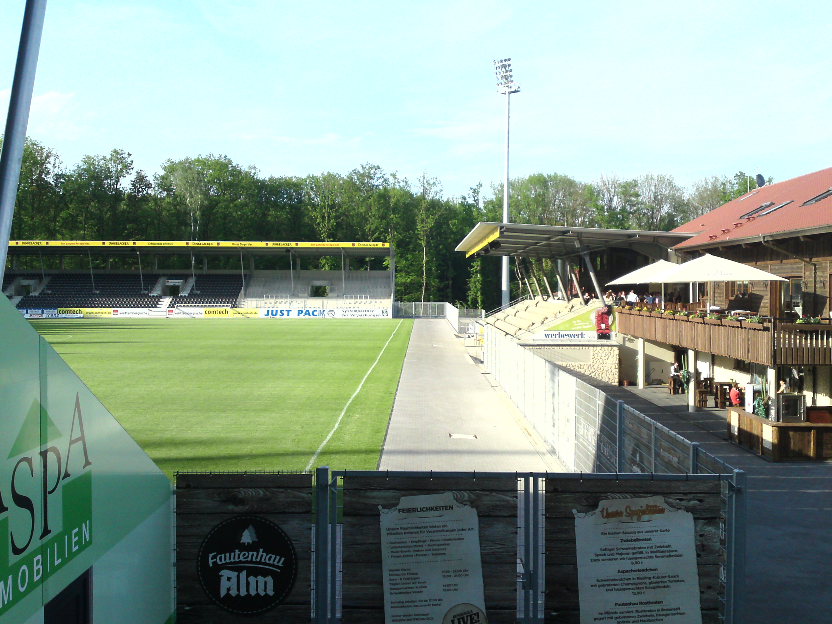 Comtech Arena in Großaspach, home ground SG Sonnenhof Großaspach